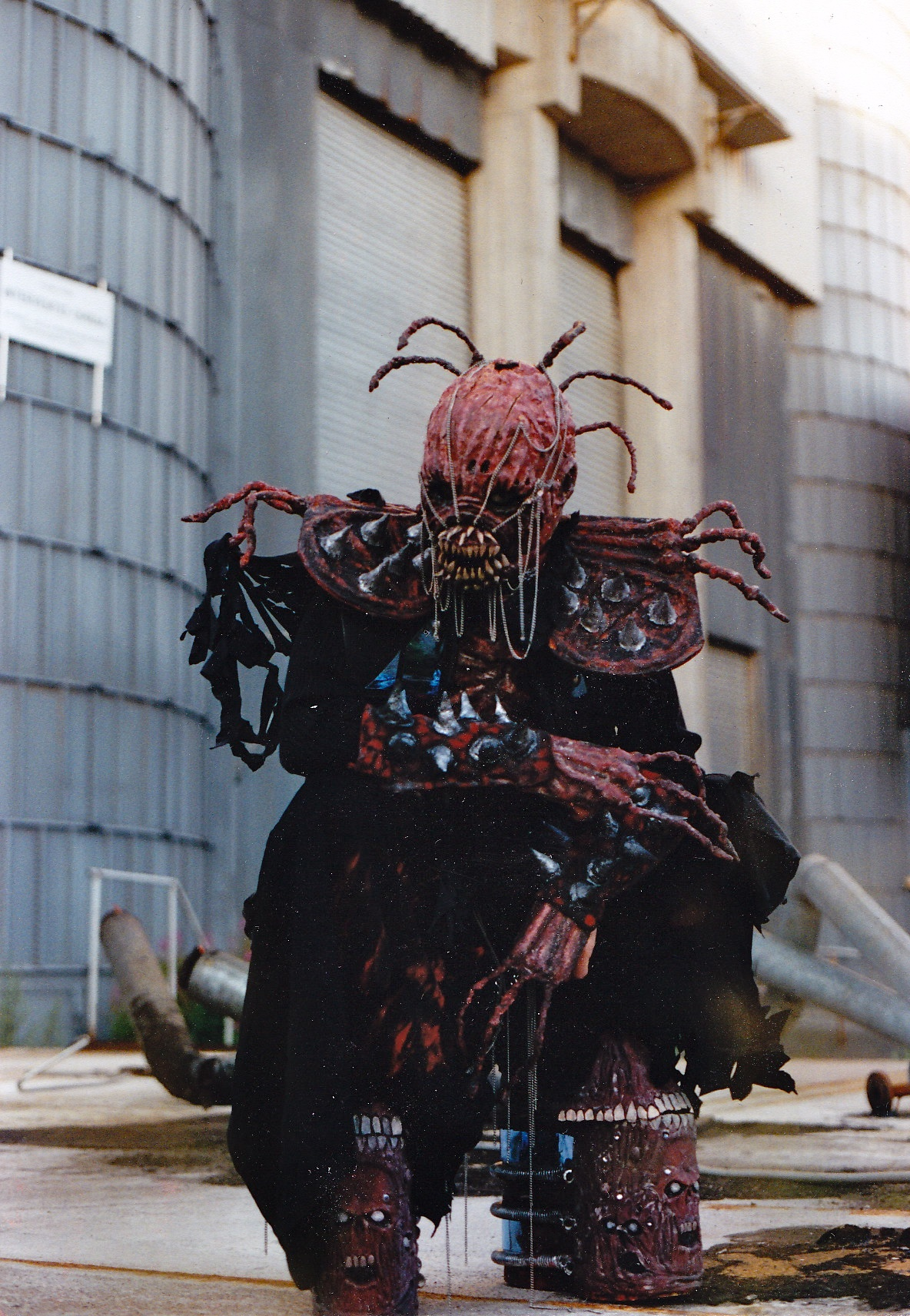 G.Stealer, former bassist of Lordi.